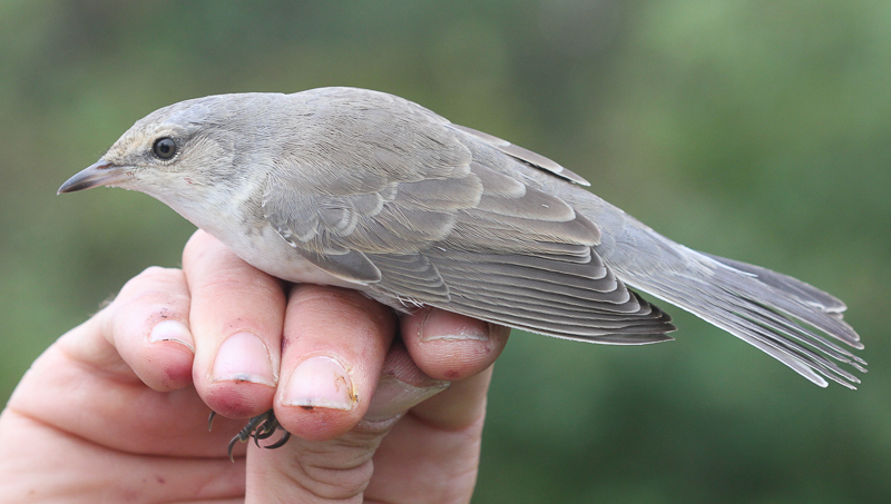 Sylvia nisoria (Sylviidae) (Barred Warbler) - (first calendar year), Meijendel - Vallei Meijendel, the Netherlands